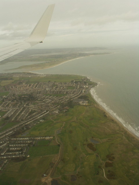 Portmarnock and Malahide from the air The north part of Portmarnock seen from a Ryanair flight approaching Dublin Airport. Strand Road runs diagonally across the picture.